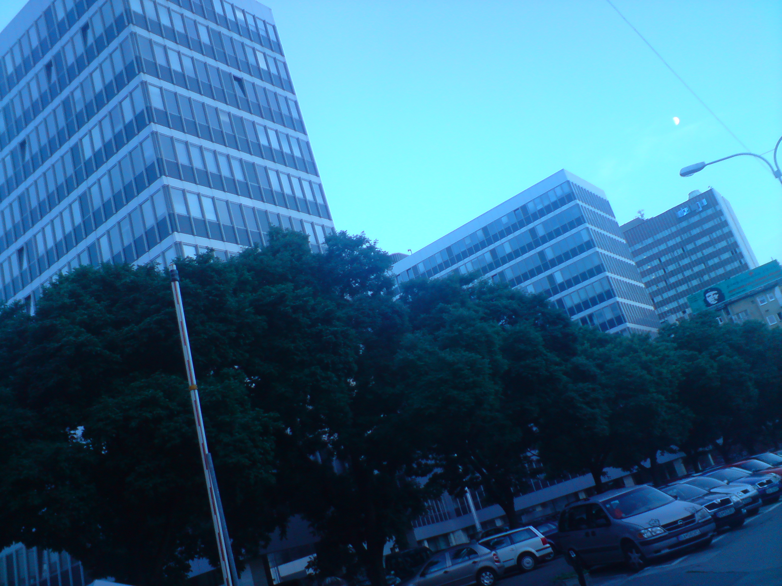 Špitálska street, Bratislava